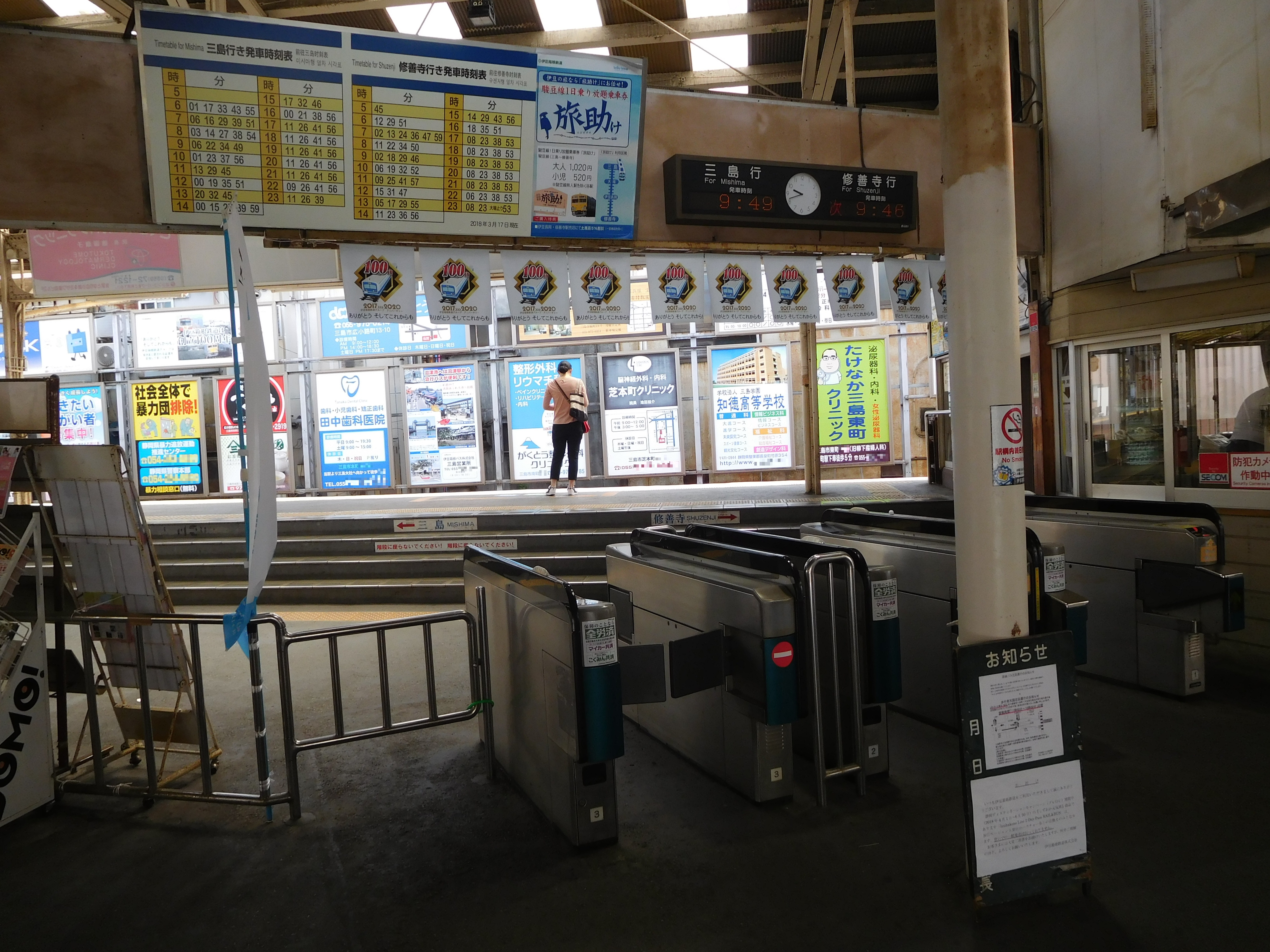 These are gates of Mishima-Hirokoji station in Mishima, Shizuoka, Japan.